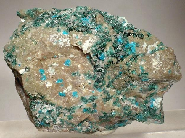 Lammerite, Lavendulan Locality: El Guanaco Mine, Guanaco (Huanaco), Santa Catalina, Antofagasta Province, Antofagasta Region, Chile (Locality at ) A VERY RICH and excellent combination specimen of a RARE and an uncommon copper arsenate from the El Guanaco Mine of Chile. Rare, dark green, microcrystals of lammerite are nicely accented with turquoise-blue sprays of uncommon lammerite on a quartz-rich matrix. Choice and rare material from the Charlie Freed Collection. 5.0 x 3.6 x 2.6 cm